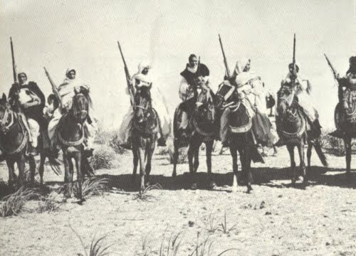 Omar Mukhtar with some Mujahideen.